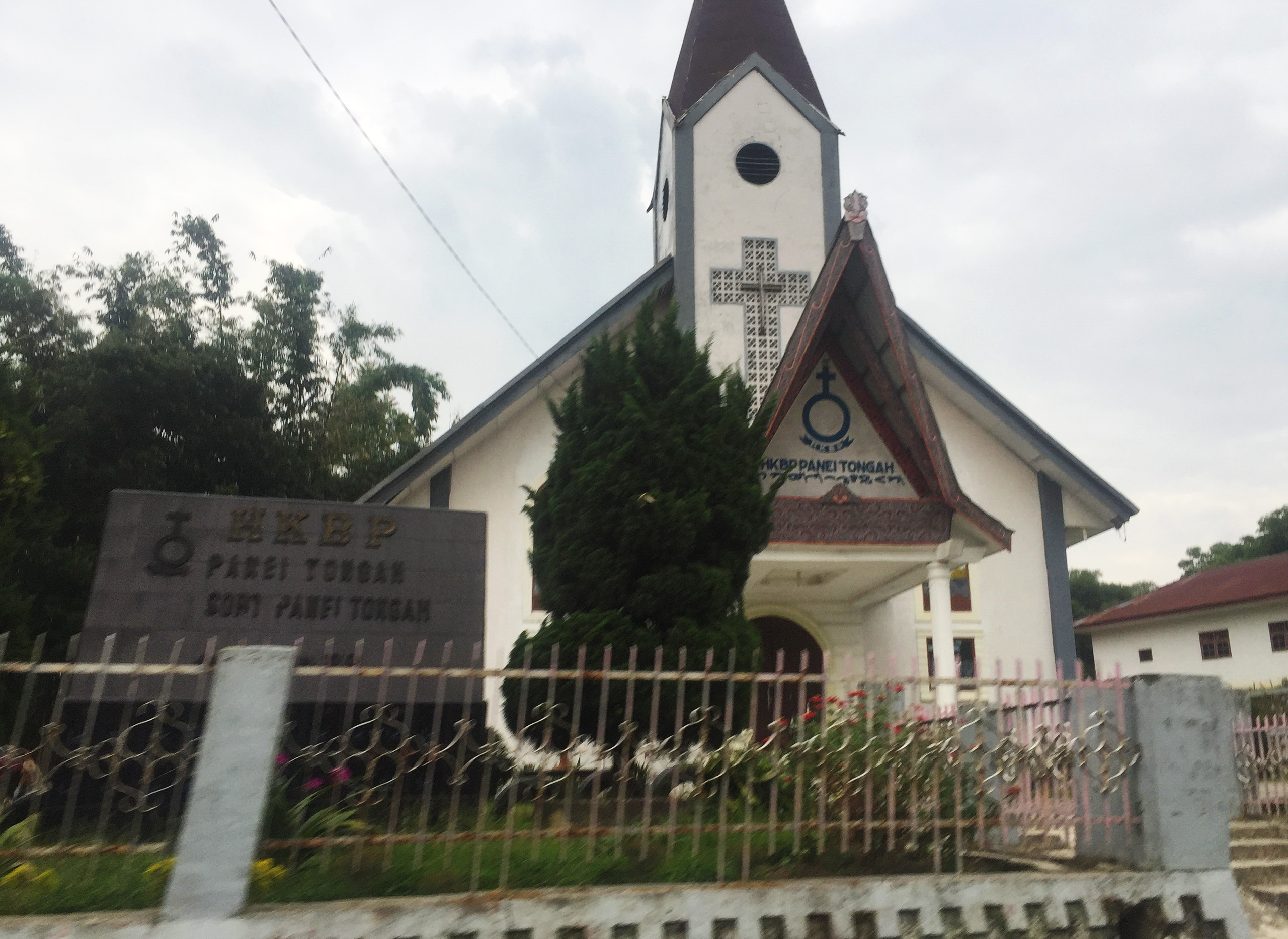 HKBP Panei Tongah, church in Panei Tongah, Panei, Simalungun